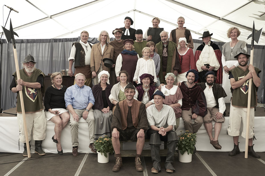 The group of Actors 2017: Ingo Gulbins, Heinz Lauenstein, Sebastian Schumacher, Hans Joachim Schumacher, Marina Brügge, Maik Stender, Jane Adler, Martin Händel, Ger Schmitz, Jürgen Lossack, Jan Brügge, Hauke Prohn, Jann Janßen, Linda Prohn, Heike Metzger, Rita Harrsen, Ralf Timm, Jakob Adler, Carlotta Adler, Hans Jaich, W. Krabow, Max Lauenstein and Nicolaus Schmidt (actor and script). Also: Elke (director) and Hendrik Horn (script), Carmen Timm.